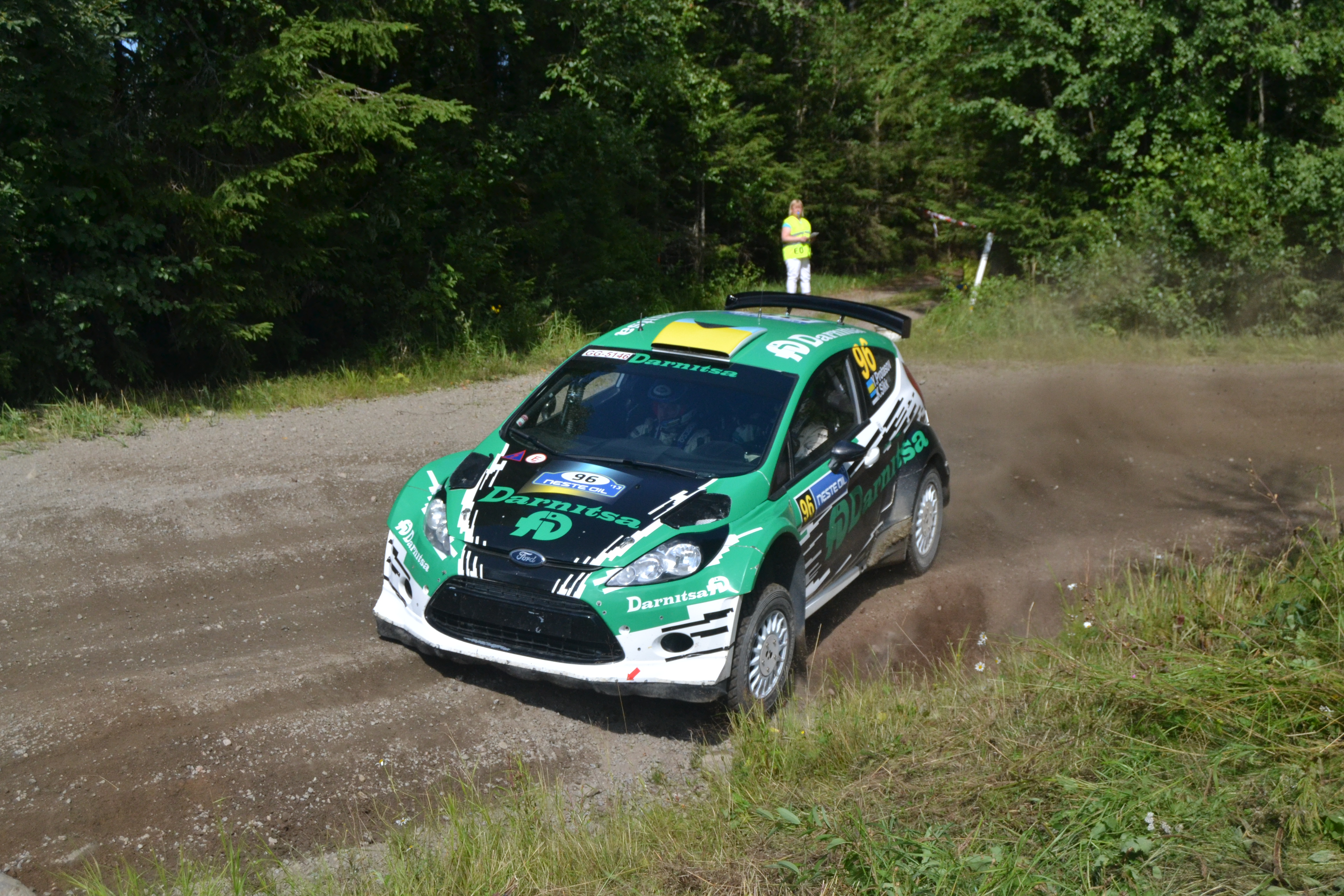 Yuriy Protasov at 2nd Surkee stage at 2013 Rally Finland